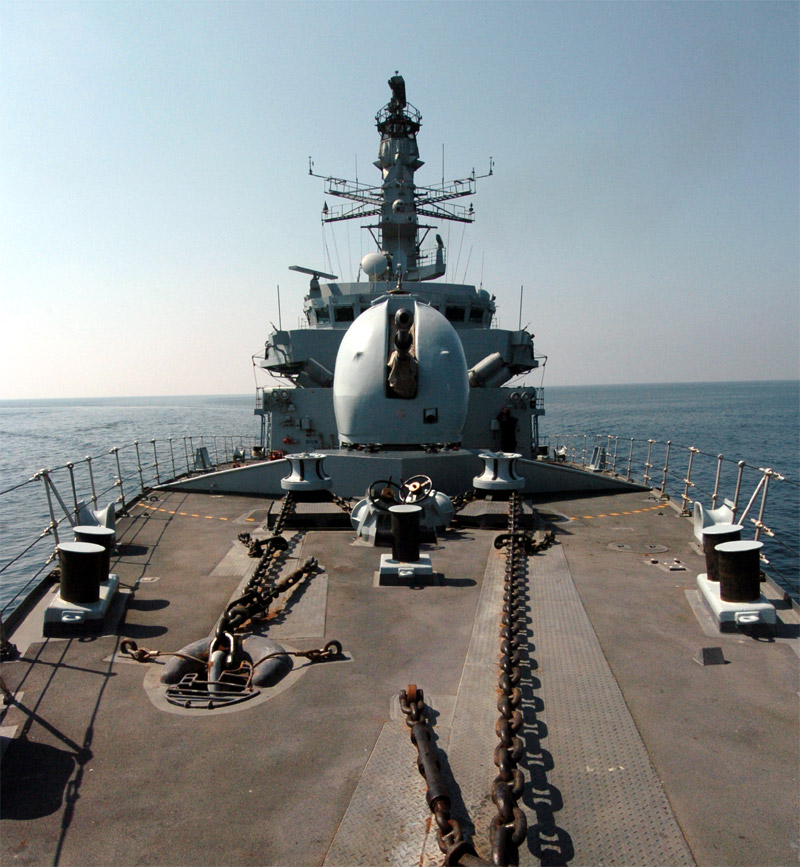 050220-N-1444C-053 Persian Gulf – The Royal Navy Type 23 frigate HMS Grafton (F80) patrols the Persian Gulf during a regularly scheduled deployment. Grafton, the 12th Type 23 Frigate to enter service in the Royal Navy, was built by Yarrows Shipbuilders Ltd, now part of BAE Systems Marine, on the River Clyde in Scotland and was launched for the Royal Navy on 5 November, 1994.